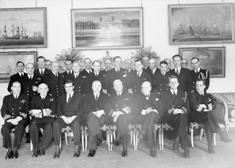 The Royal Navy during the Second World War Admiral H R Stark, USN, commanding US Naval Forces in Europe, accompanied by Mr Winant, the United States ambassador, and members of his staff, visited the Admiralty. Mr Churchill and the First Lord of the Admiralty Mr A V Alexander attended the meeting. Left to right: Front row seated: Captain C A Baker, USN; Admiral of the Fleet Sir Dudley Pound, First Sea Lord; Mr J G Winant, US Ambassador; Mr A V Alexander, First Lord of the Admiralty; Admiral H R Stark, USN, Commanding US Naval Forces in Europe; Mr Winston Churchill; Captain R S Wentworth, USN, Chief of Staff; Captain H A Flanigan, USN. Back row: Lieutenant Commander H R Hardy; Rear Admiral A L St G Lyster, 5th Sea Lord; Lord Bruntisfield; Colonel Sir Eric Cranckshaw; Vice Admiral Sir W J Whitworth, 2nd Sea Lord; Commander Thompson; Vice Admiral Sir B A Fraser, 3rd Sea Lord; Vice Admiral E L S King, 4th Sea Lord; Rear Admiral H B Rawlings; Admiral Sir Percy Noble; Rear Admiral R R McGrigor; Captain T A Selberg, USN; Rear Admiral A J Power; Sir Geoffrey Blake; Commander E W Litch, USN, Naval Air Attache and Acting Naval Attache; Sir J S Barnes; Captain R A Pilkington, Civil Lord; Rear Admiral A M Peters; Flag Lieutenant A C Veasey, USN.